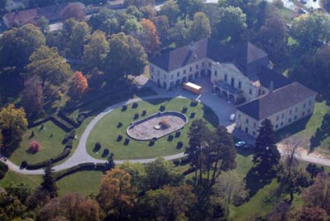 Kittsee, Austria, aerialphotography